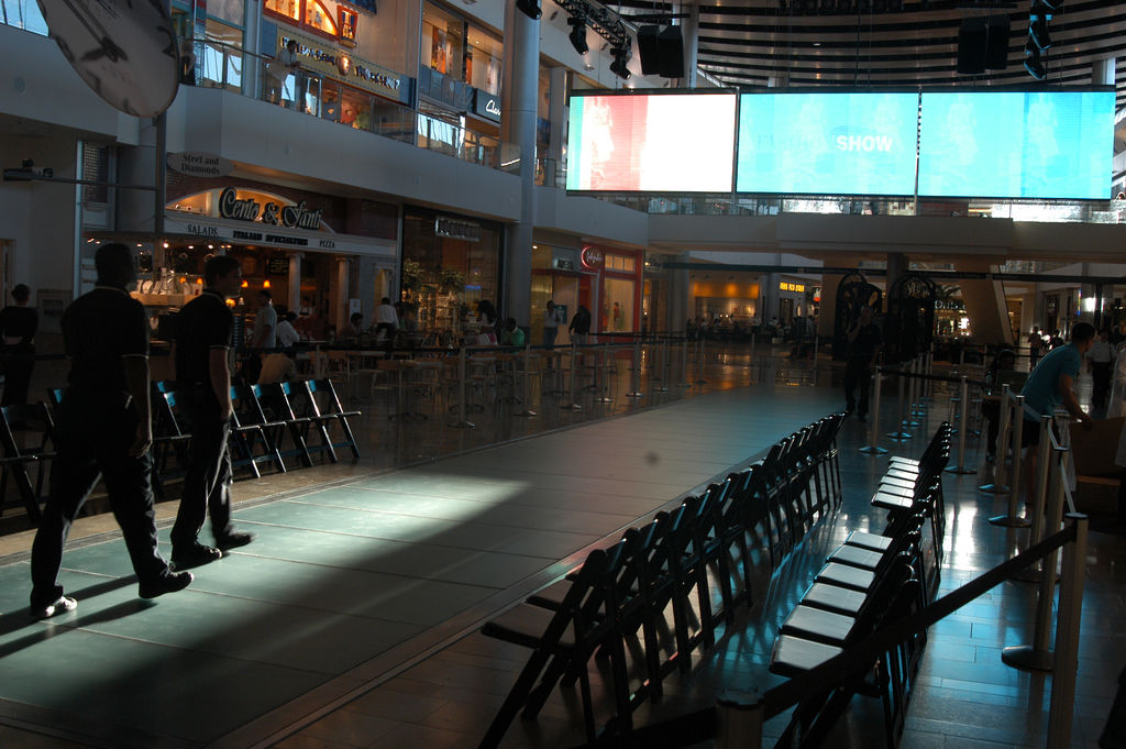 Desfile en el Fashion Show Mall de Las Vegas